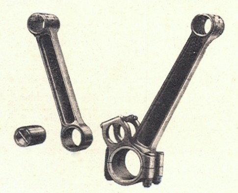 Articulated engine connecting rod